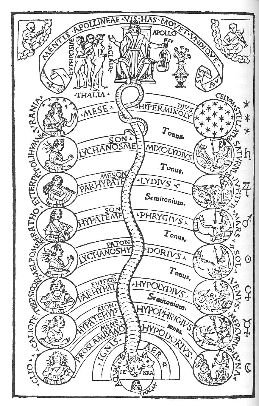 The music of the spheres. Shown in this engraving from Renaissance Italy are Apollo, the Muses, the planetary spheres and musical ratios.